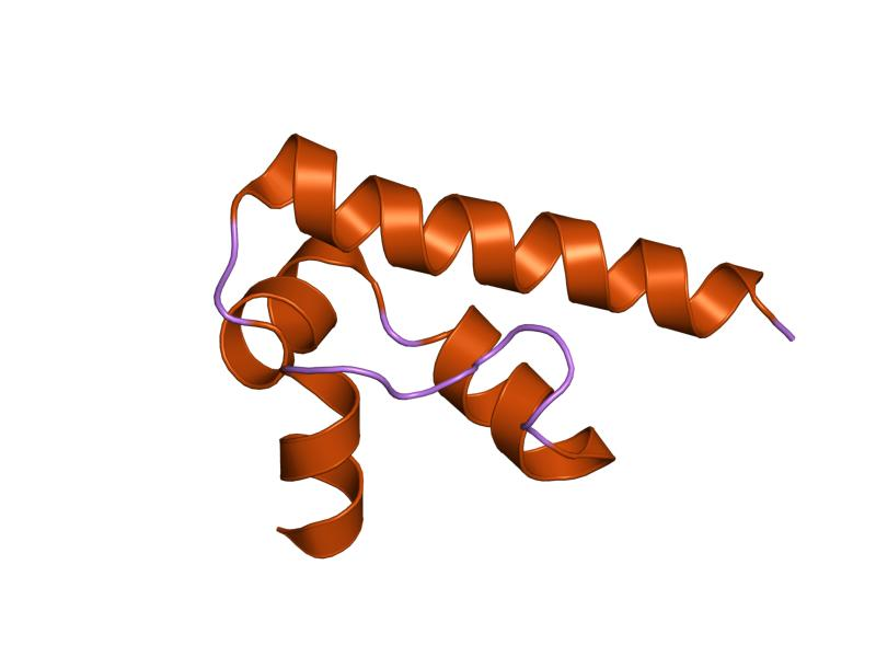 Cartoon representation of the molecular structure of protein registered with 1koy code.